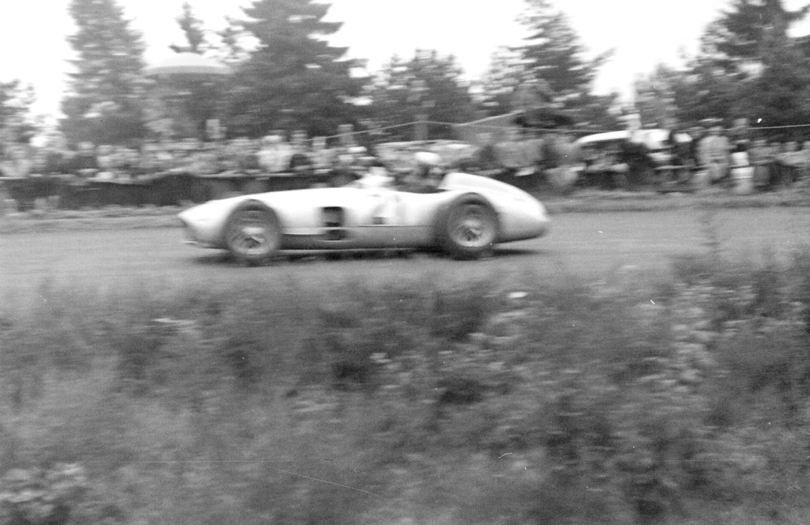 Formula 1 WM, Grosser Preis von Europa,1954, Nuerburgring Germany, Mercedes Benz W196 Monoposto, racing driver: Hermann Lang